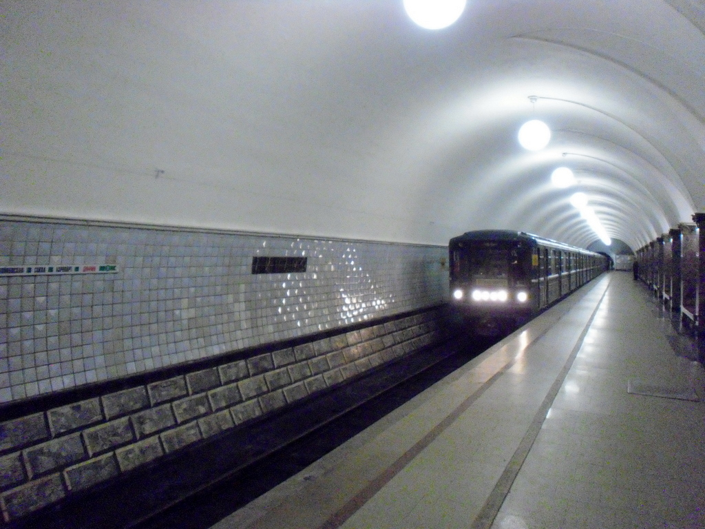 Dinamo metro station in Moscow